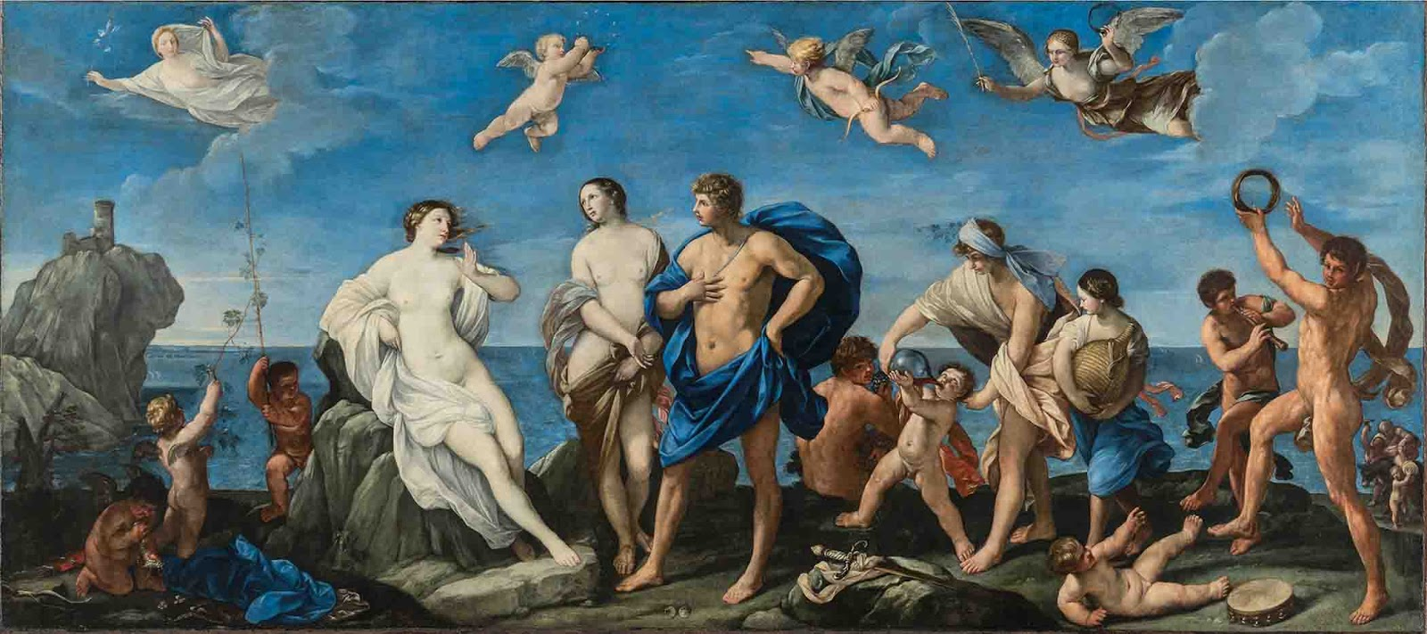 Bacco e Arianna di Guido Reni